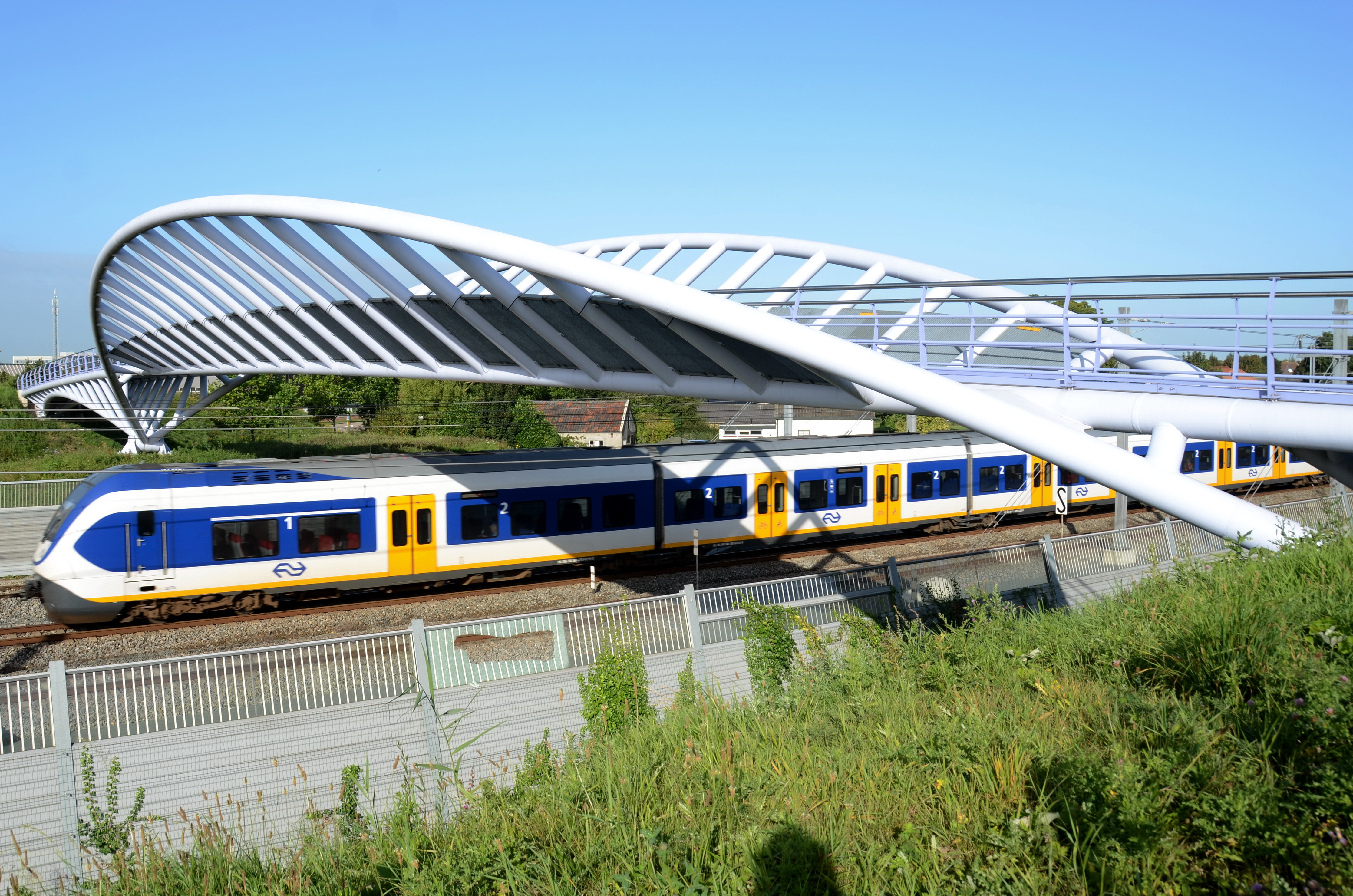 Foot/bicycle-bridge over the railway in Houten with Sprinter train of NS